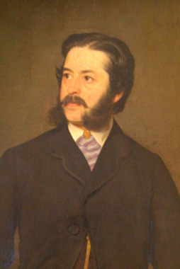 Portrait of Eduard Kuschee